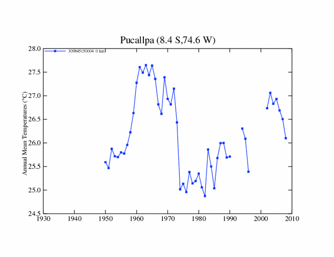 Climate graph of 1949 2009 air average temperaturas at city of Pucallpa, Peru